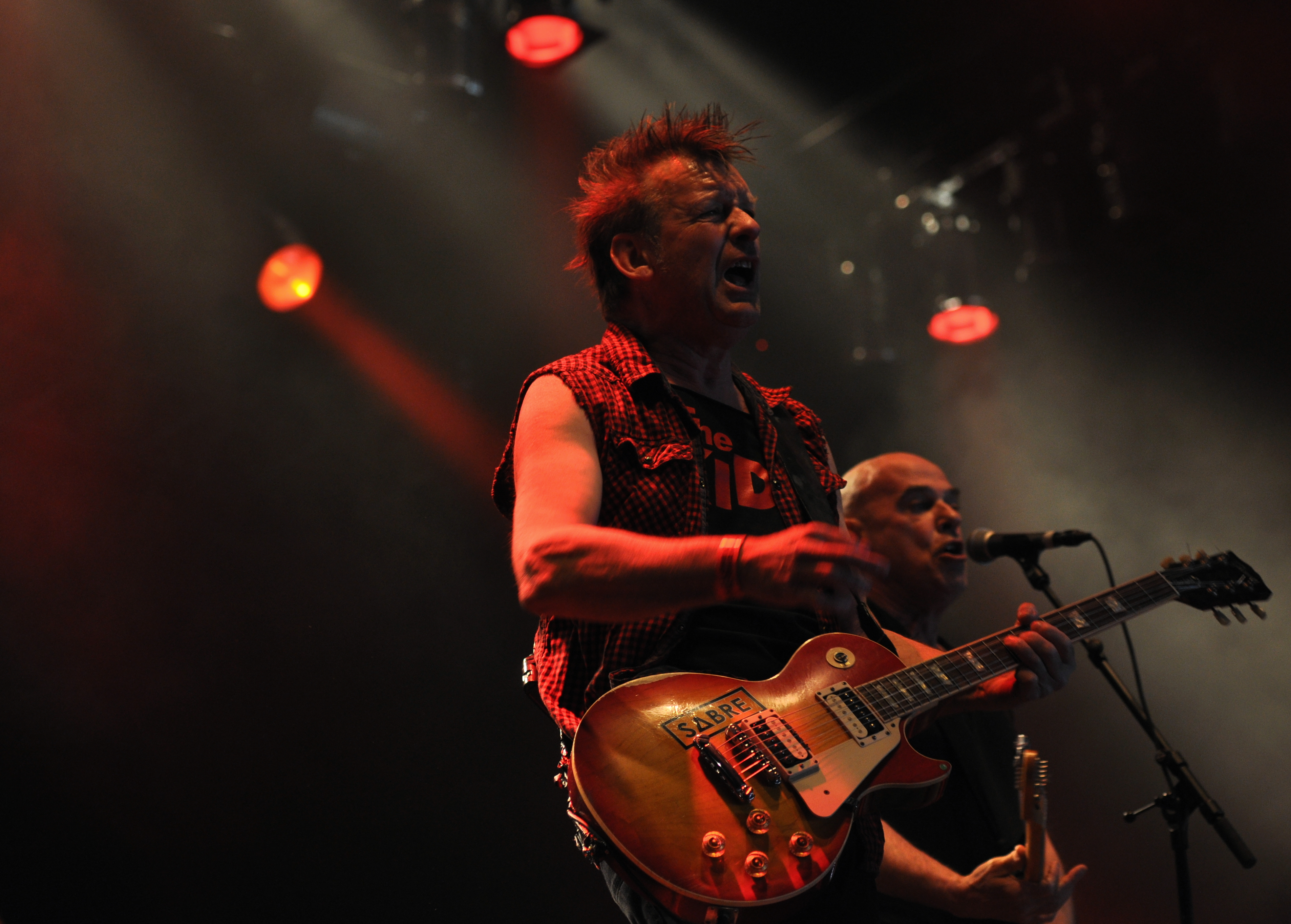 Luc van de Poel of The Kids at Groezrock 2013, Belgium